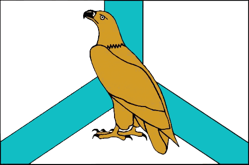 Flag of Dalnerechensk, Primorsky Territory, Russia